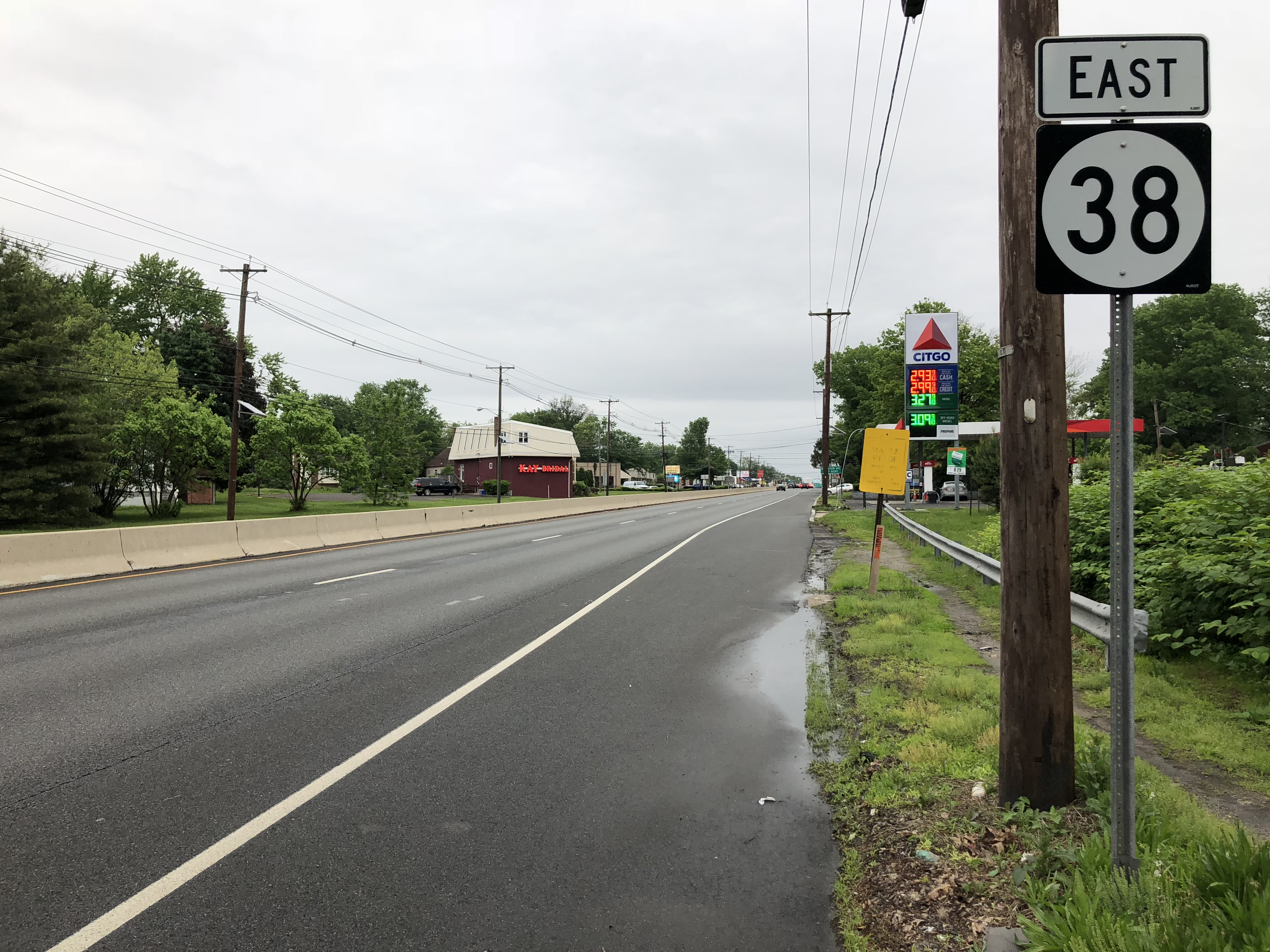 View east along New Jersey State Route 38 (Kaighns Avenue) between Mill Road and Alexander Avenue in Maple Shade Township, Burlington County, New Jersey